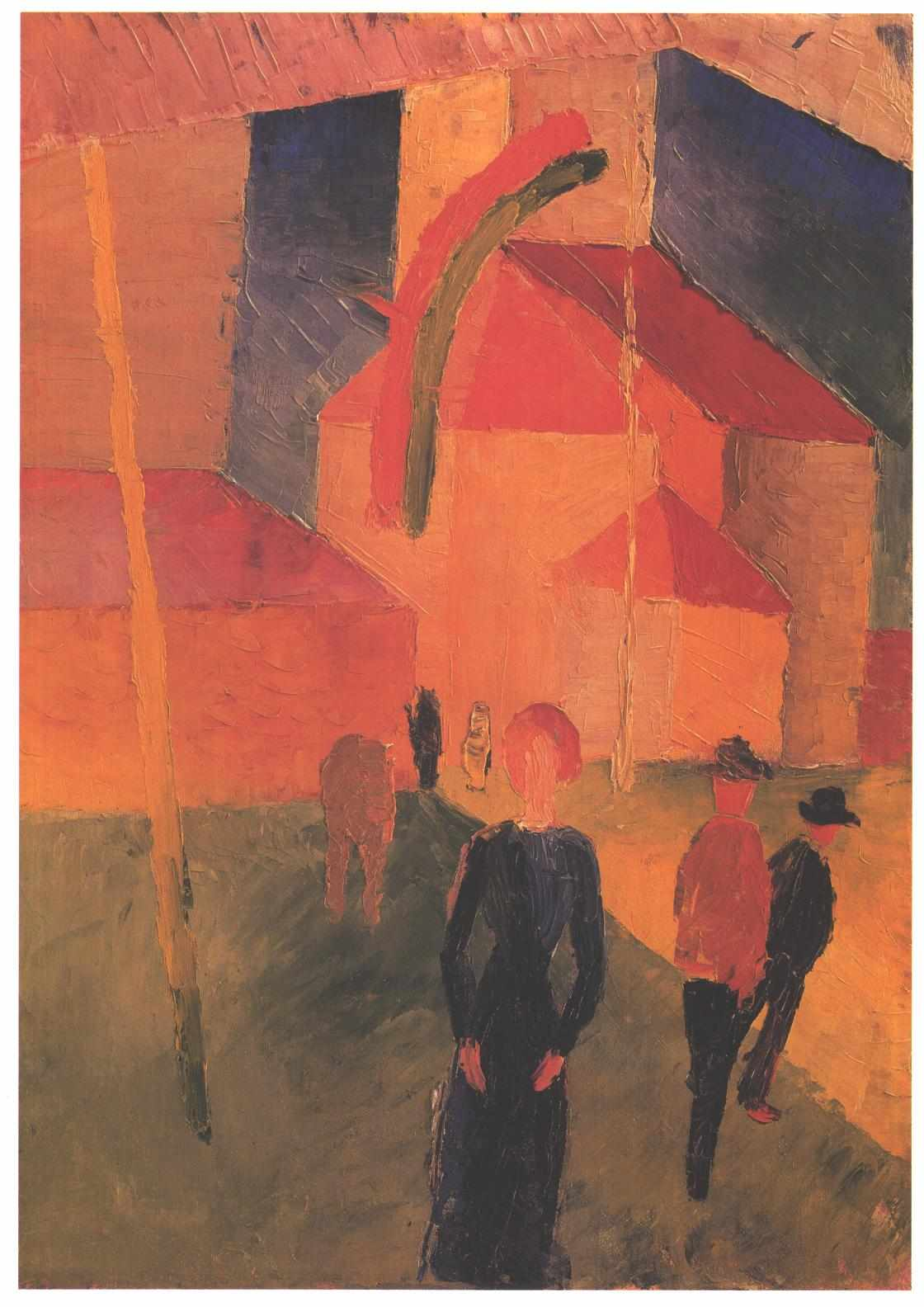 Flagged church